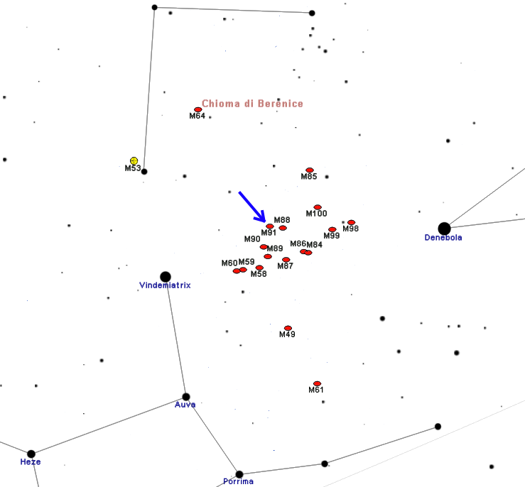 Map of M91